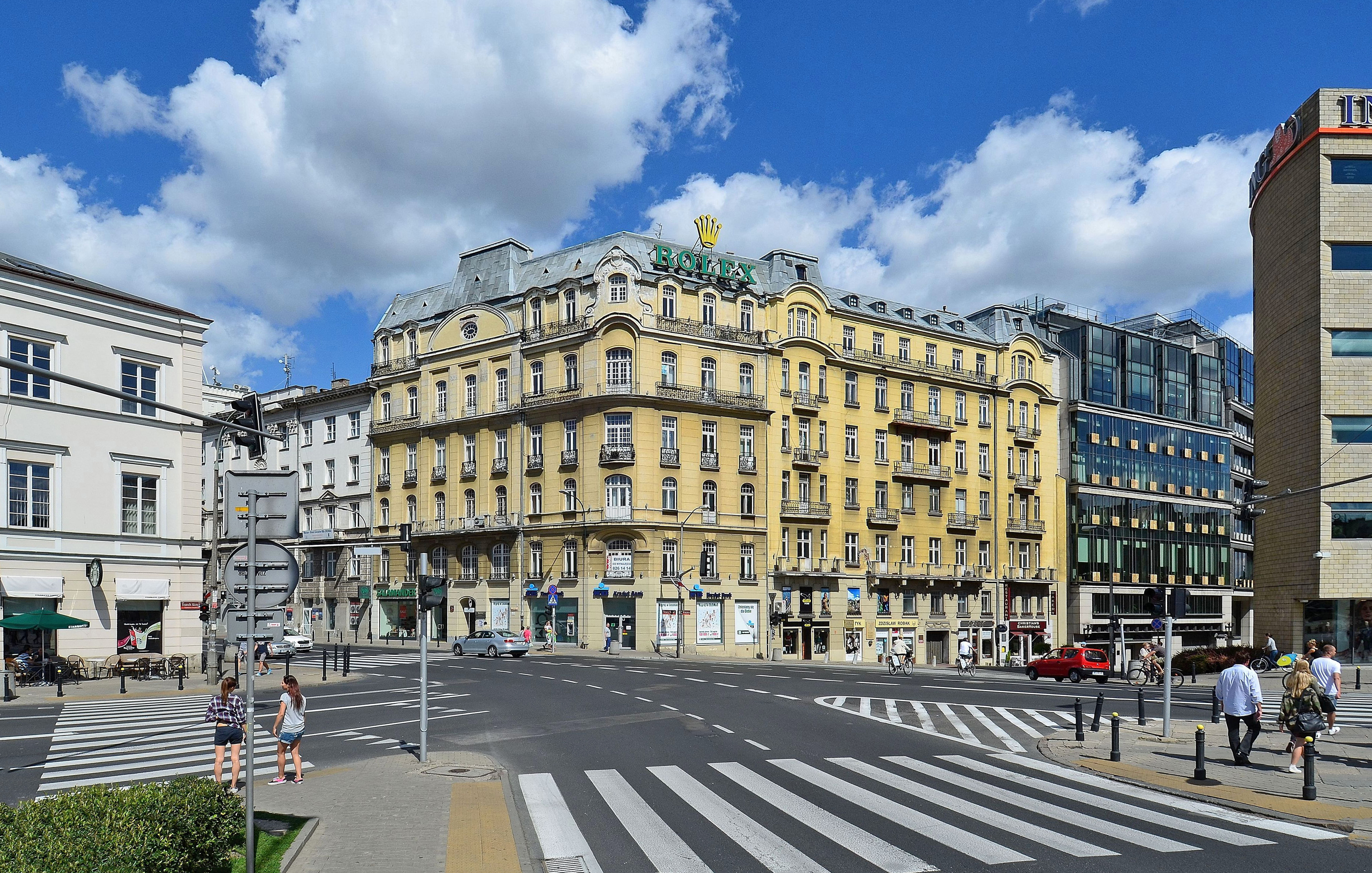 Three Crosses Square near Książęca Street in Warsaw